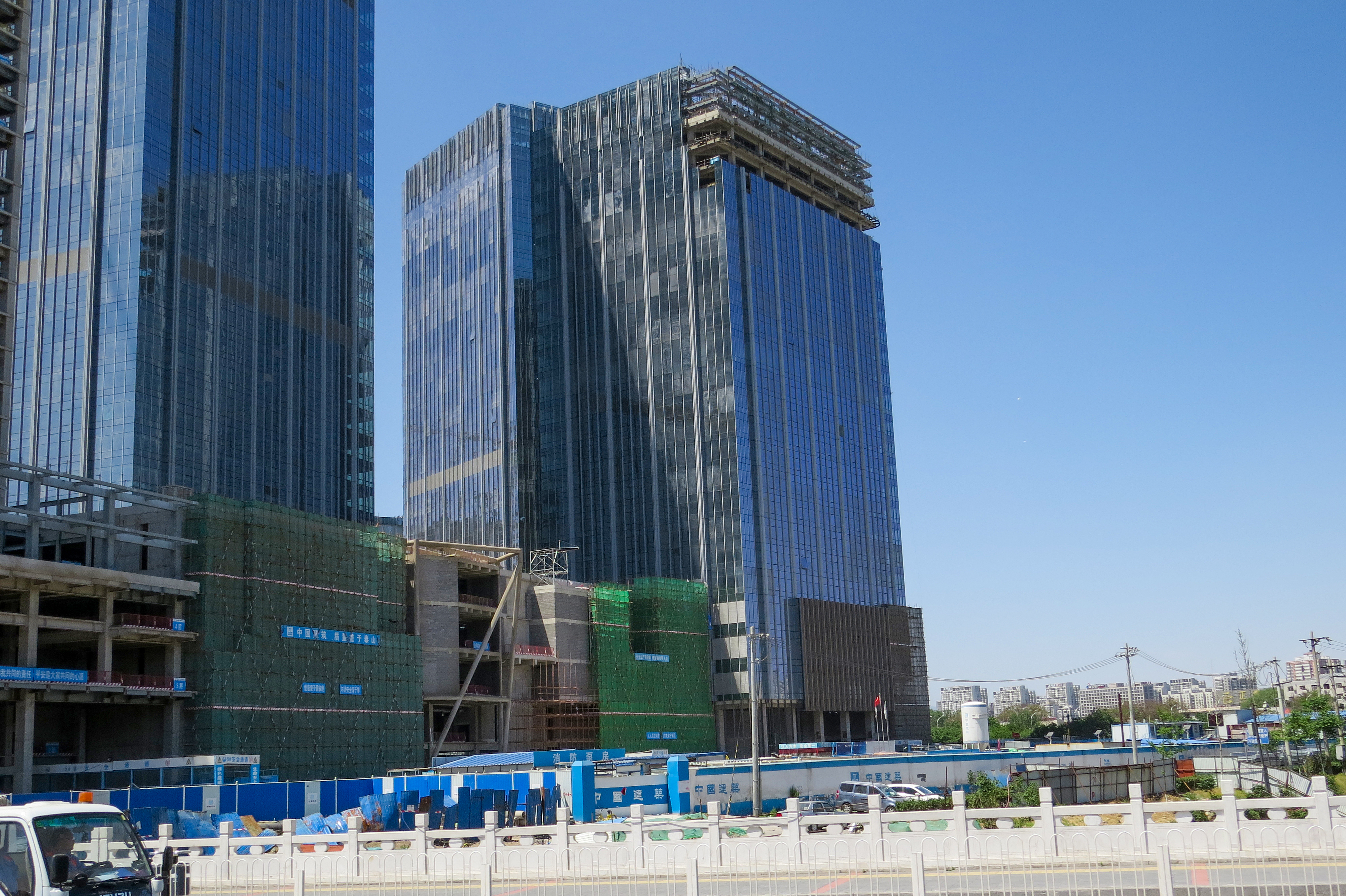 Some maps show that the Lize Business District metro station is supposed to be here. But where's the construction site of metro station?